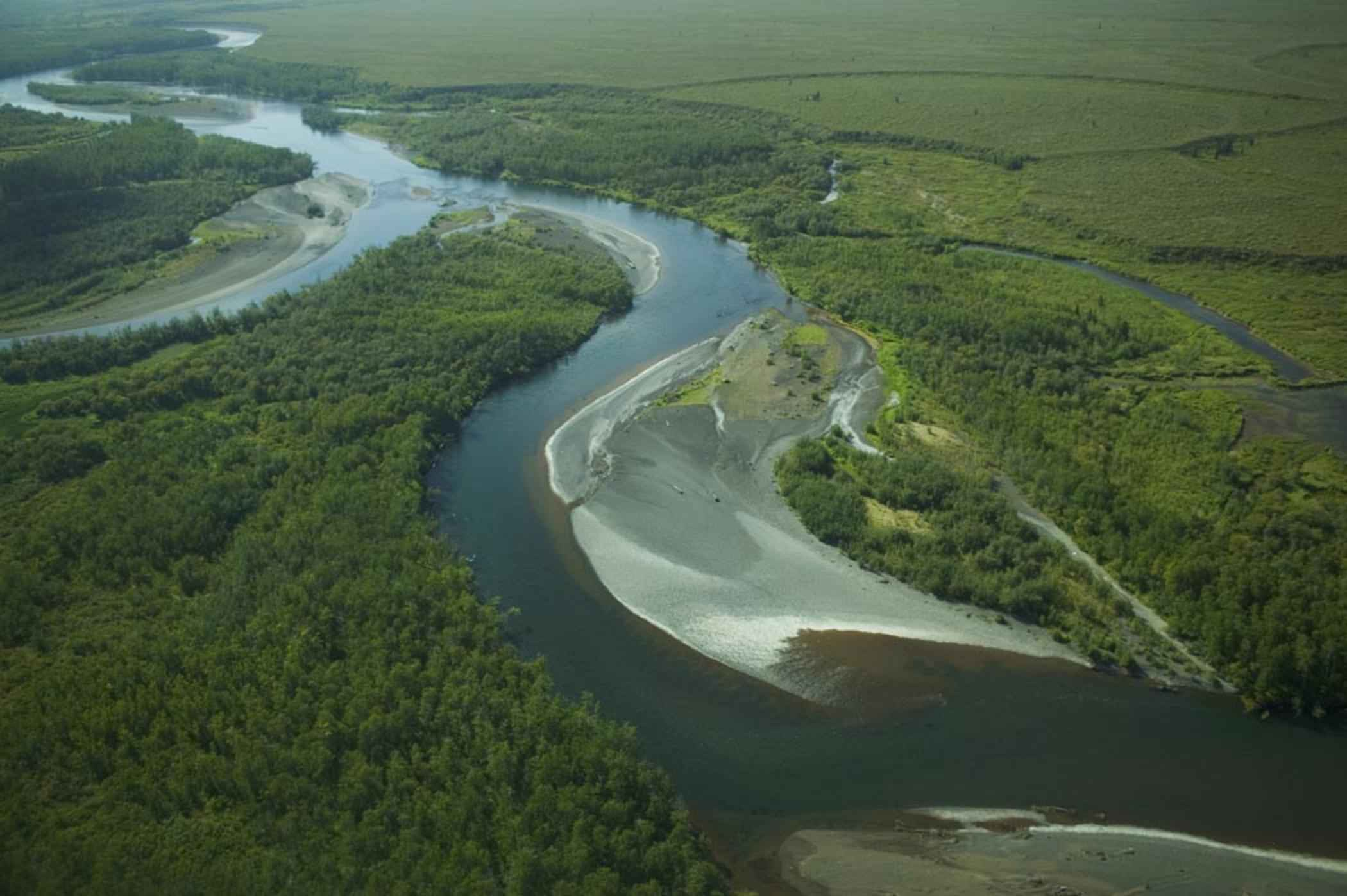 Image title: Meandering river aerial photography Image from Public domain images website